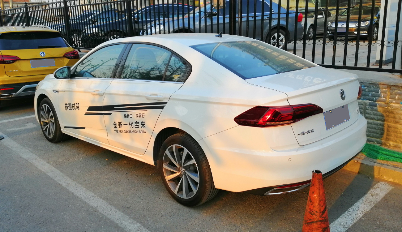 Volkswagen Bora CN IV photographed in Beijing, China.